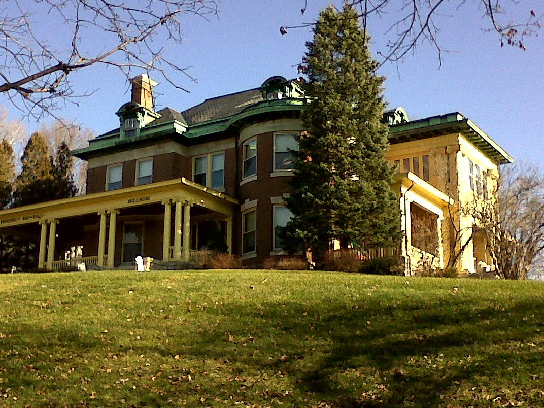 Hillside is located at One Prospect Dr. in Davenport, Iowa. It is listed on the National Register of Historic Places.